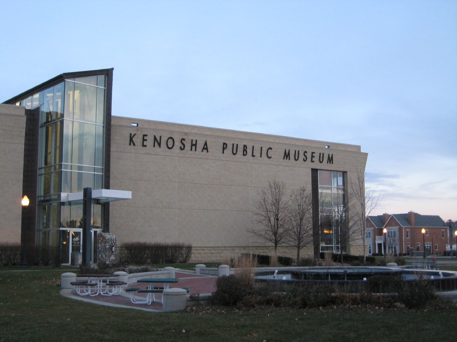 Kenosha Public Museum